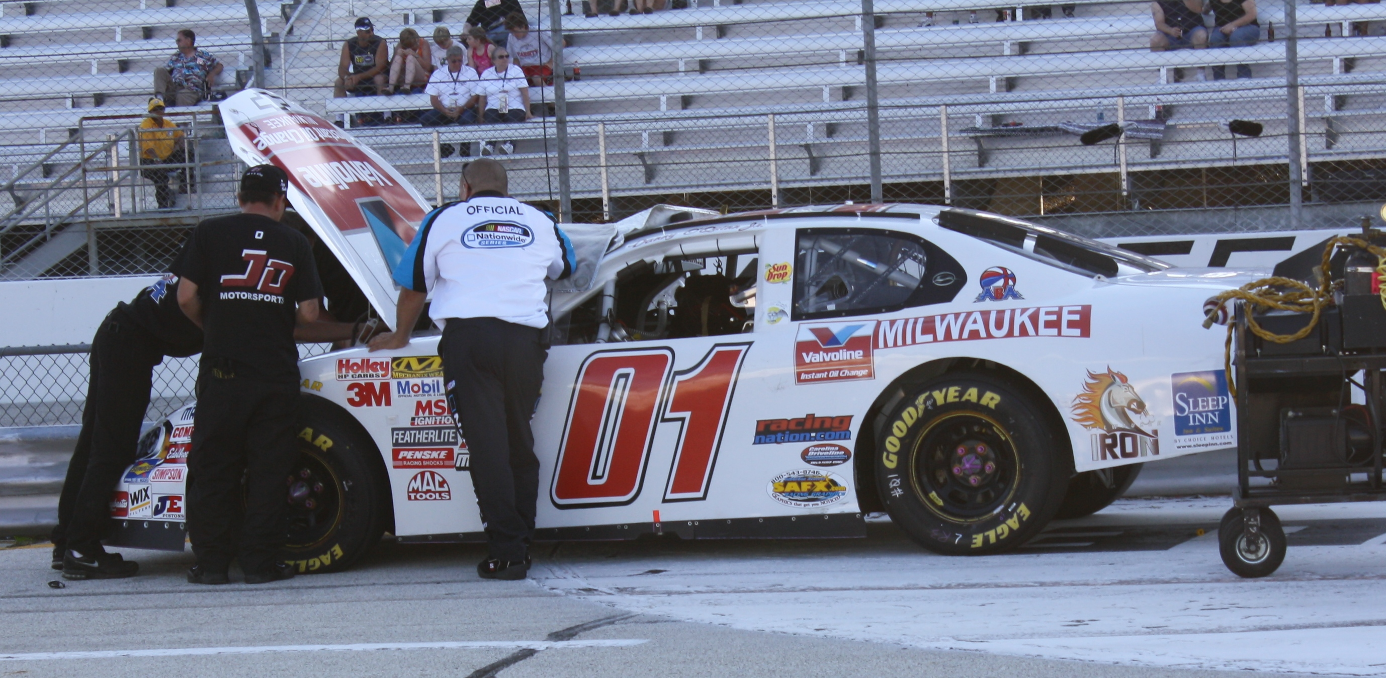 NASCAR driver Danny O'Quinn, Jr.s Chevrolet at the 2009 Northern 250 Nationwide Series race at the Milwaukee Mile.